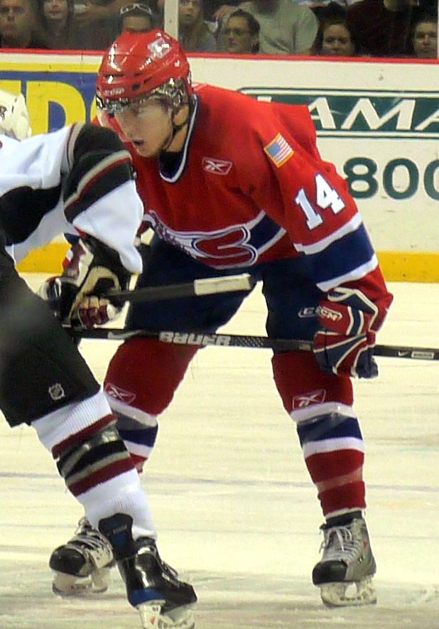 Spokane Chiefs forward Mitch Wahl in game seven of the second round of the 2009 WHL playoffs against the Vancouver Giants.